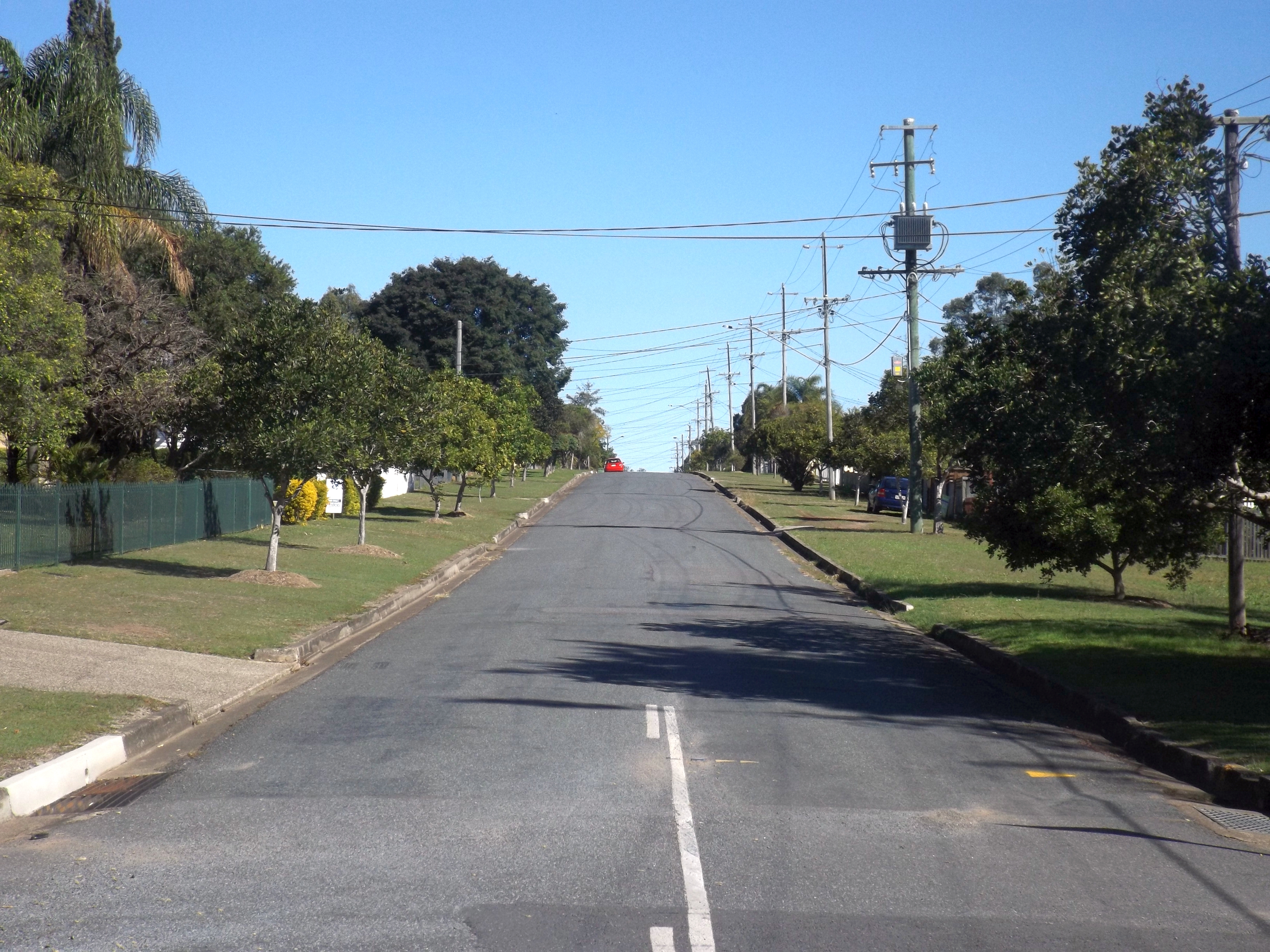 Photo of Philip Street at One Mile in City of Ipswich, Queensland, Australia.